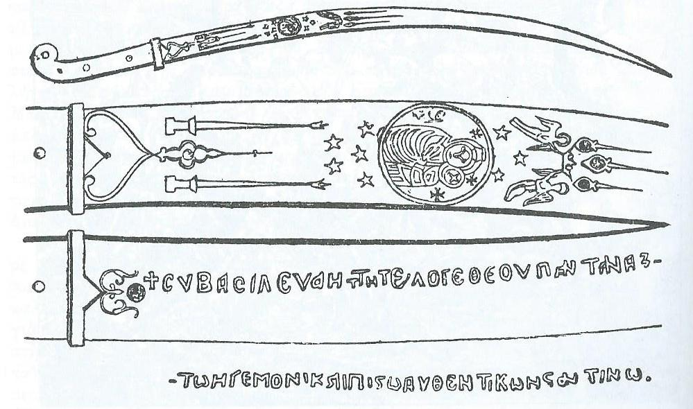 Sketch of the sword of Constantine XI Palaiologos, Roman Emperor